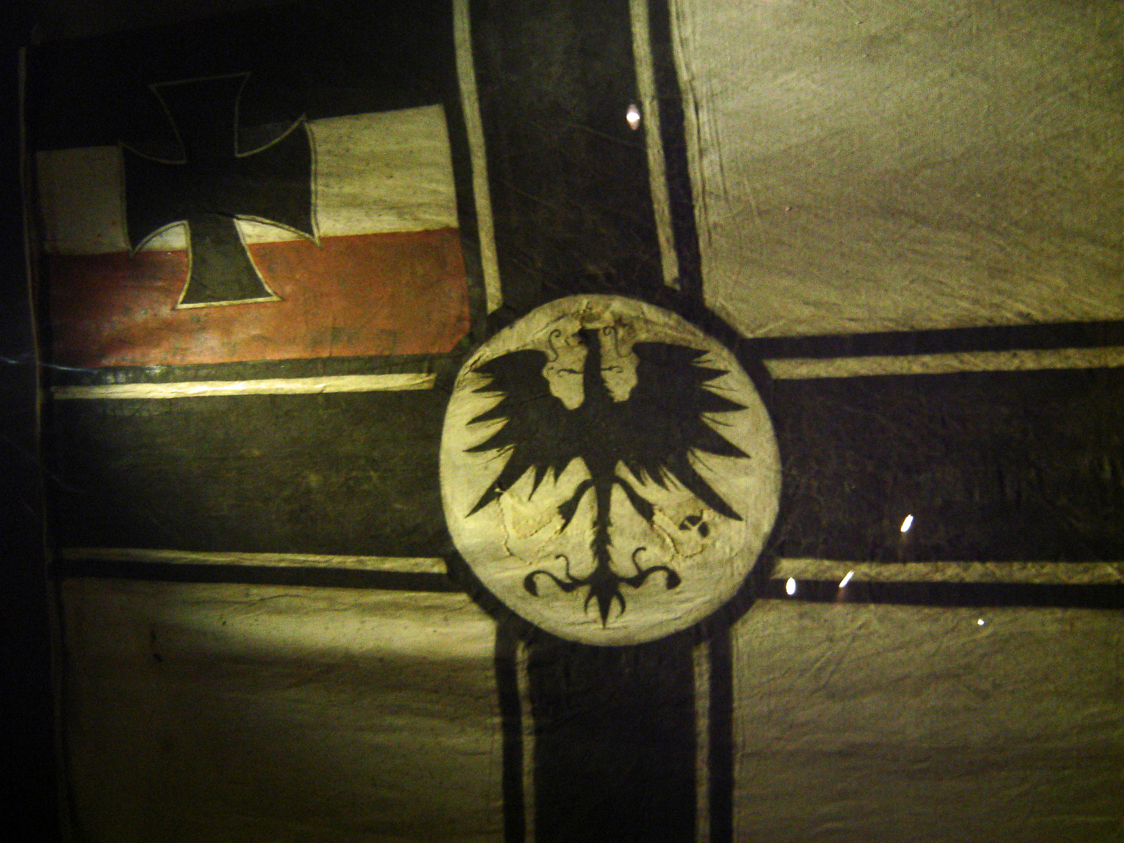 The German ensign used by Felix von Luckner's Seeadler, on display at the Auckland War Memorial Museum.